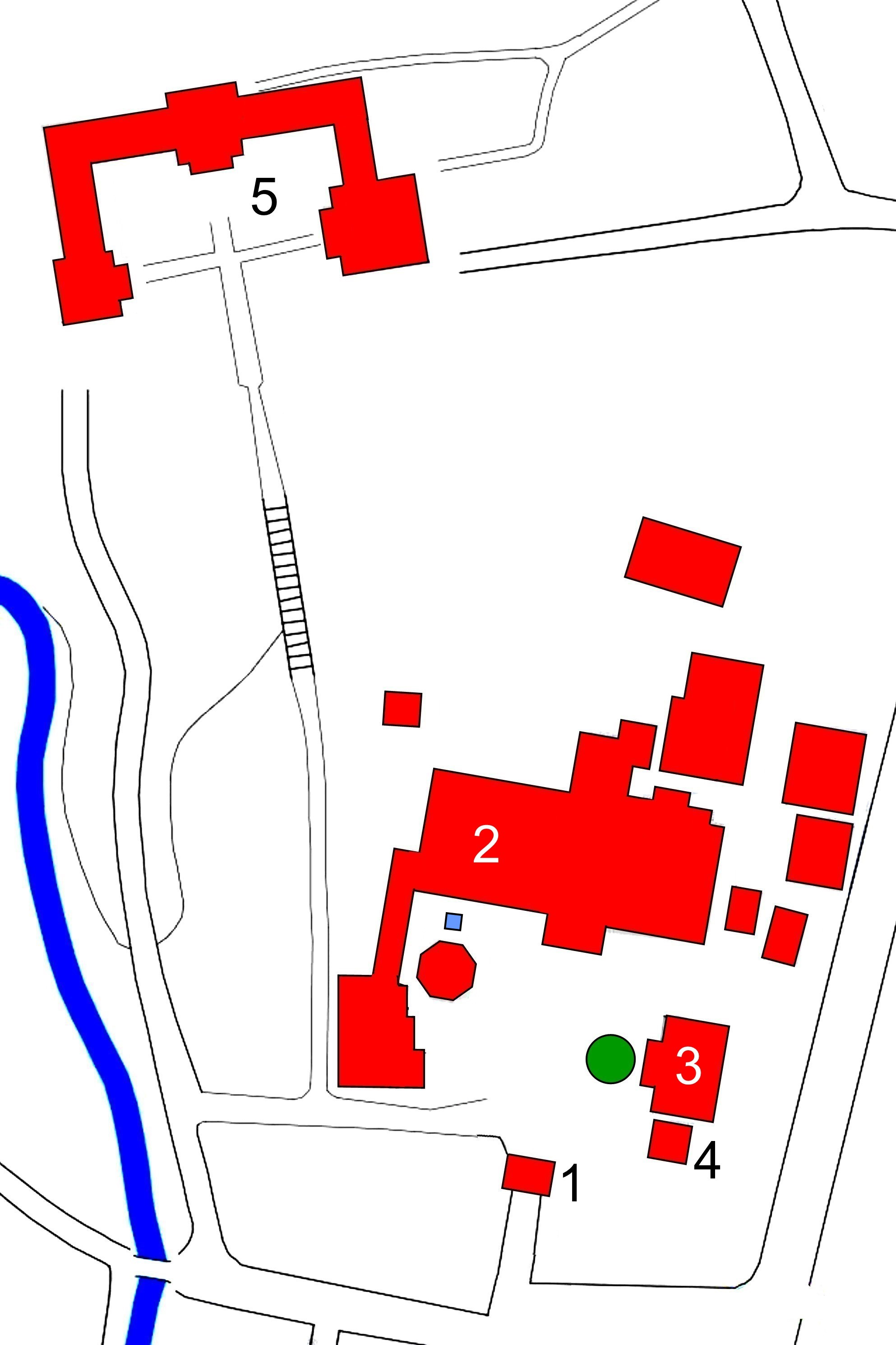 Layout of Jizô-ji at Itano